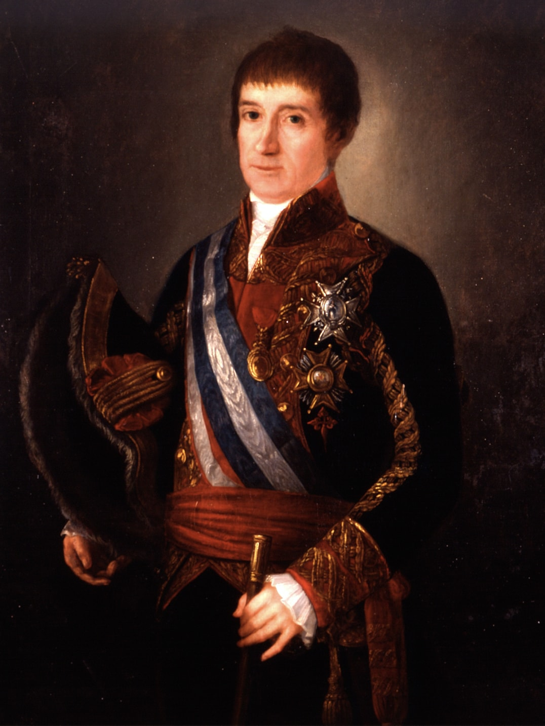 Portrait of the Admiral of the Spanish Navy Félix de Tejada (1733-1817)